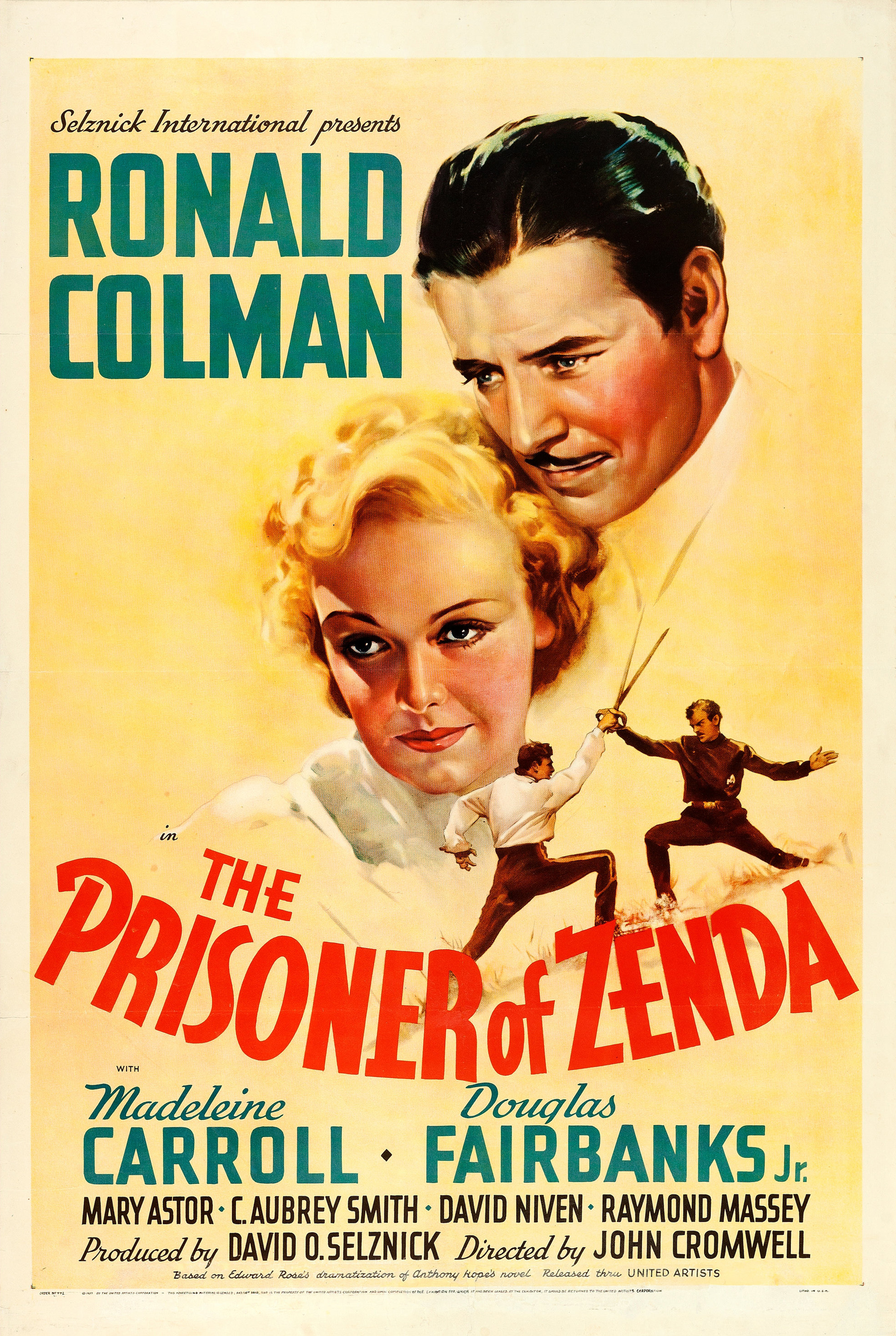 Theatrical poster for the American release of the 1937 film The Prisoner of Zenda.